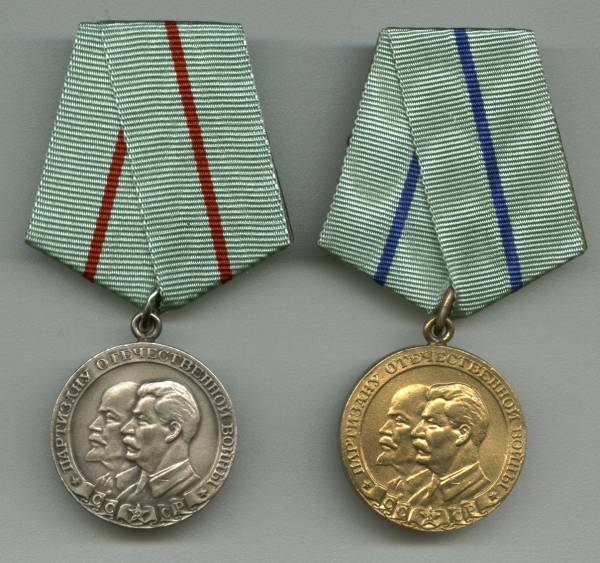 Soviet WWII Medal for a Partisan of the Great National War - Медаль "Партизану Отечественной войны" - Medal Partizanu Otechestvennoy voyny